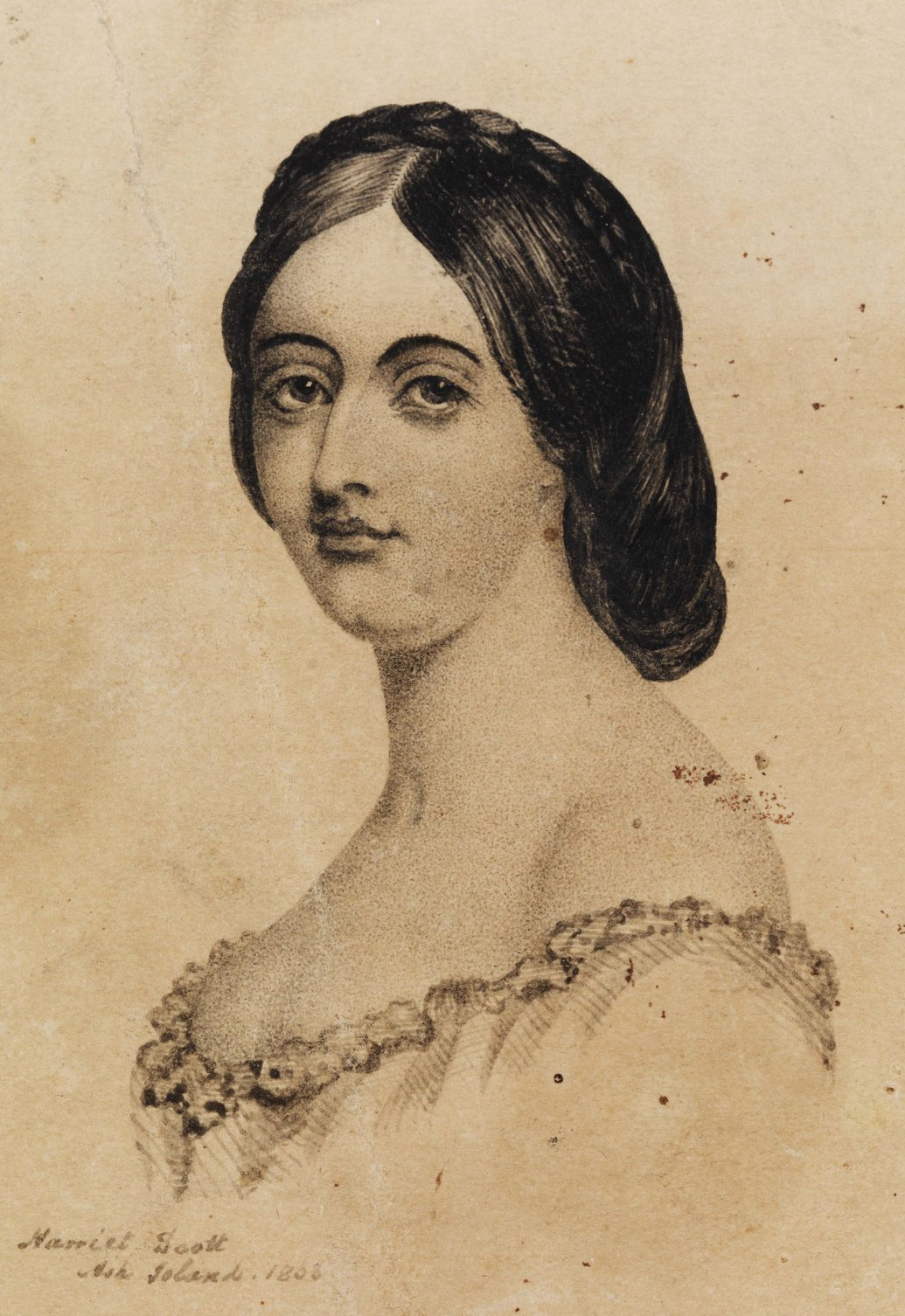 Portrait of Harriet Scott (1830–1907)